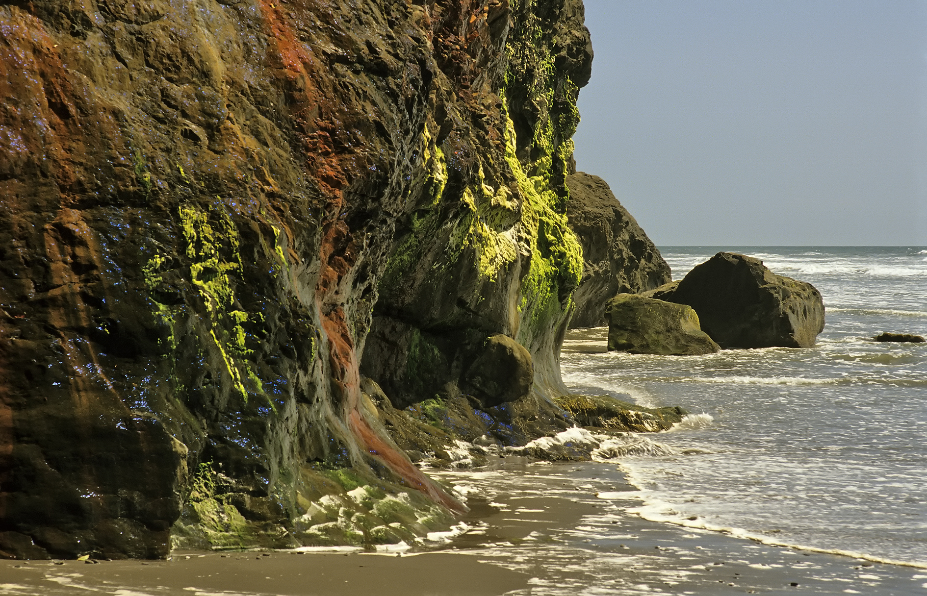 Rock face in Ruby Beach with hot springs in the Olympic National Park, Washington State, USA.